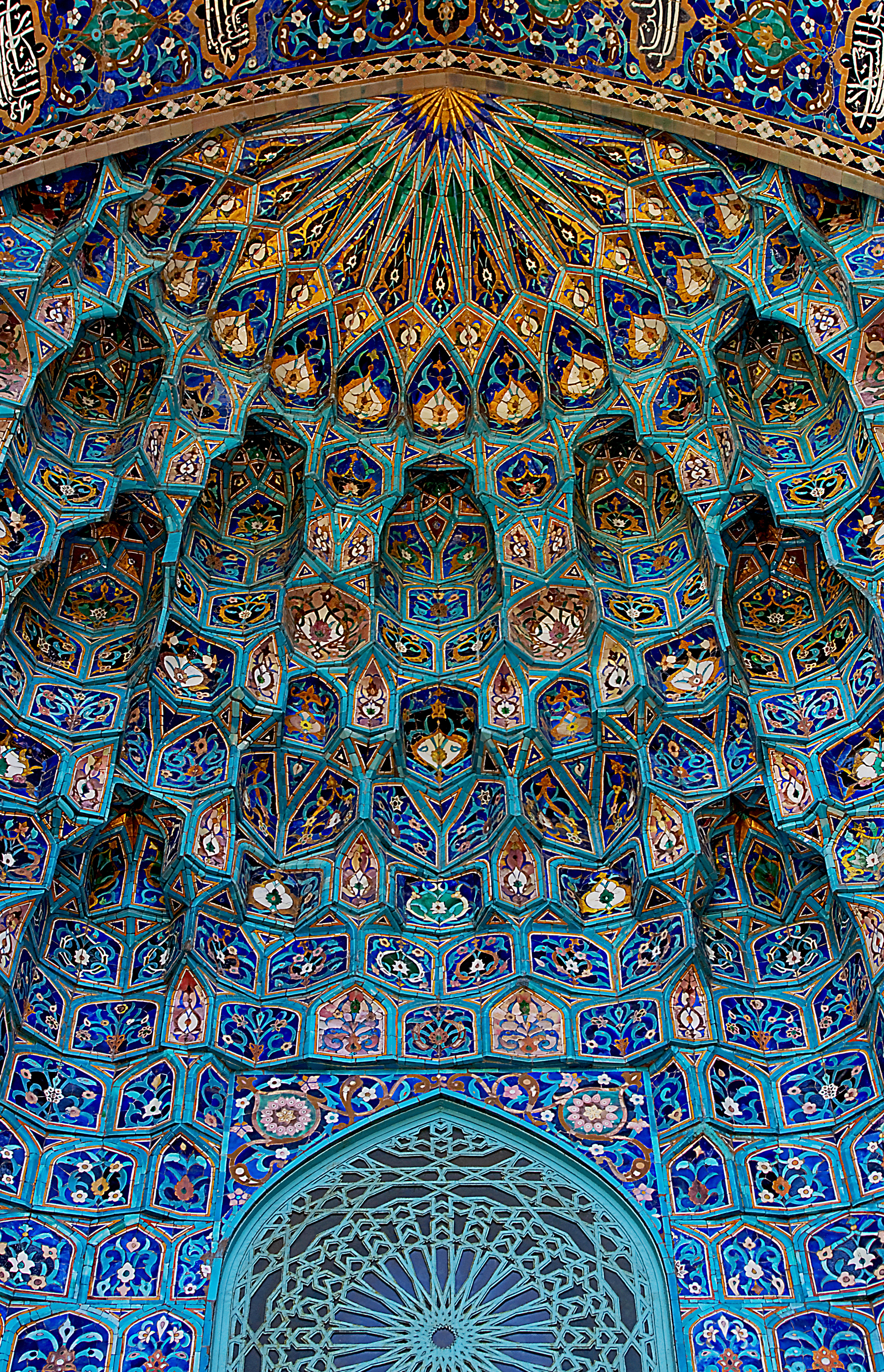 Saint Petersburg Mosque. Maiolica of portal, in the form of Muqarnas. The tiles were made by Peter Vaulin